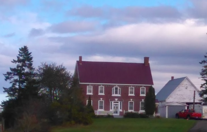 The Chapman House in summertime